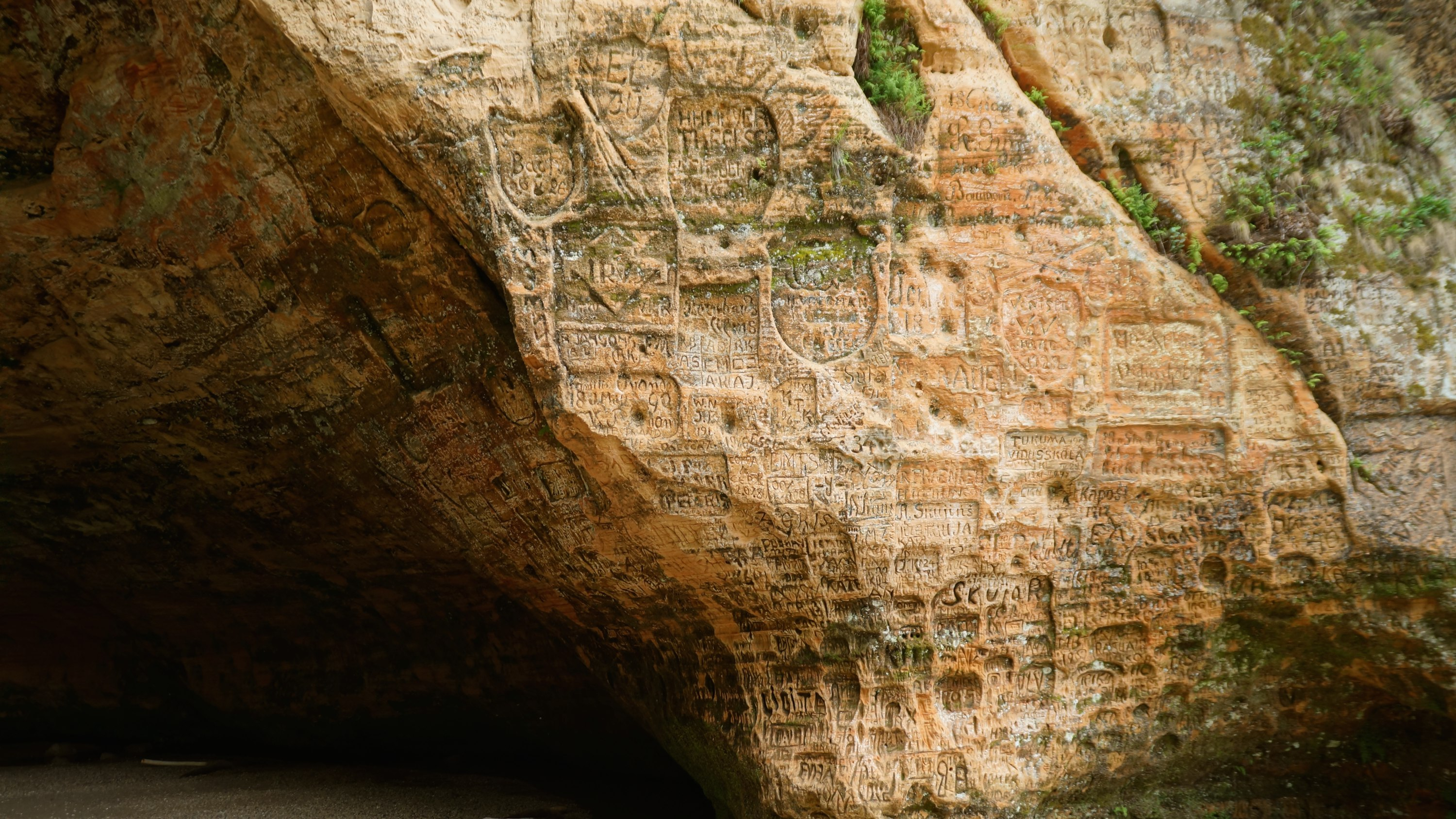 Gutmanis cave at Sigulda National Park